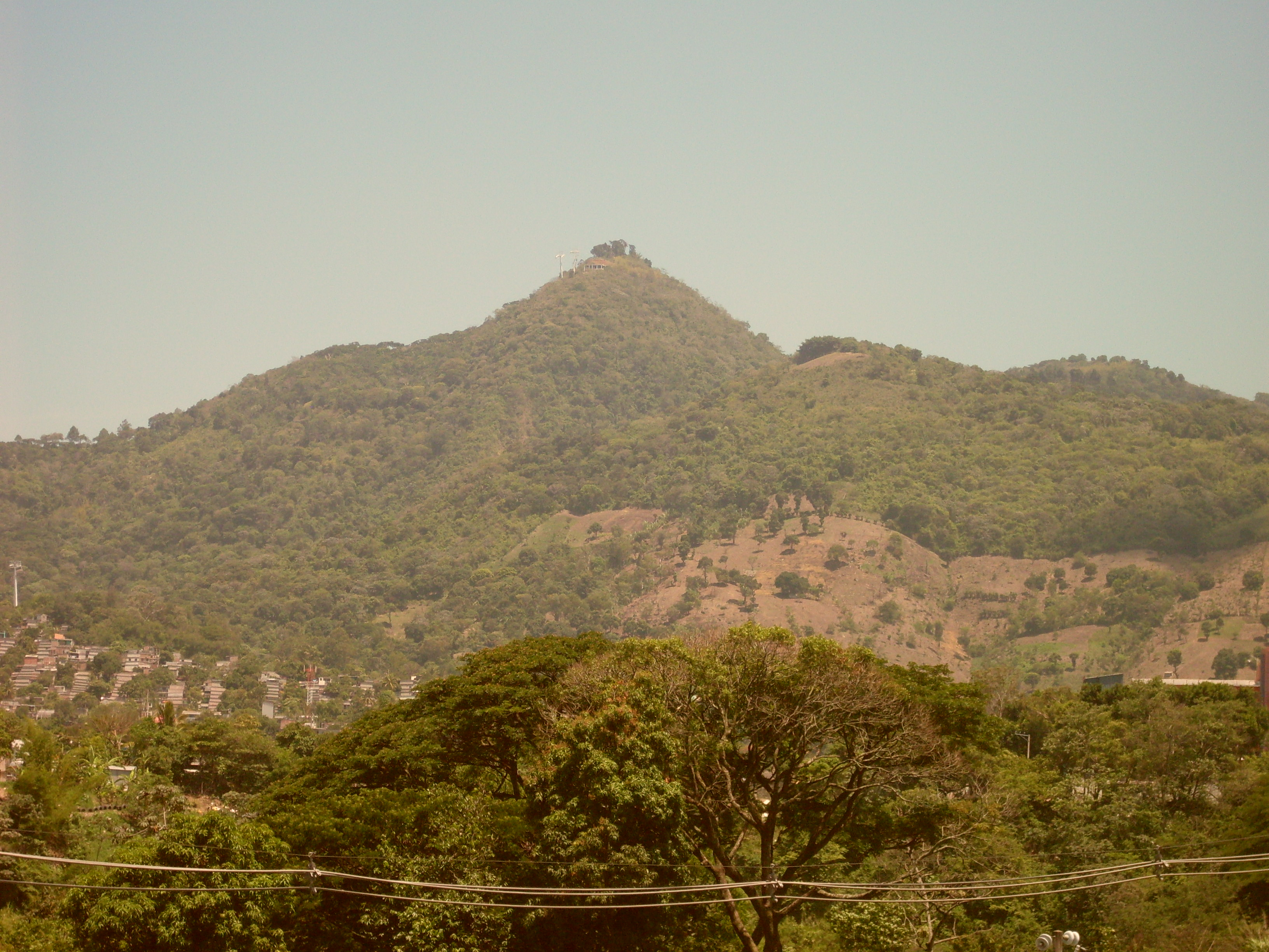 Image of the Hill San Hyacinth from The Capital